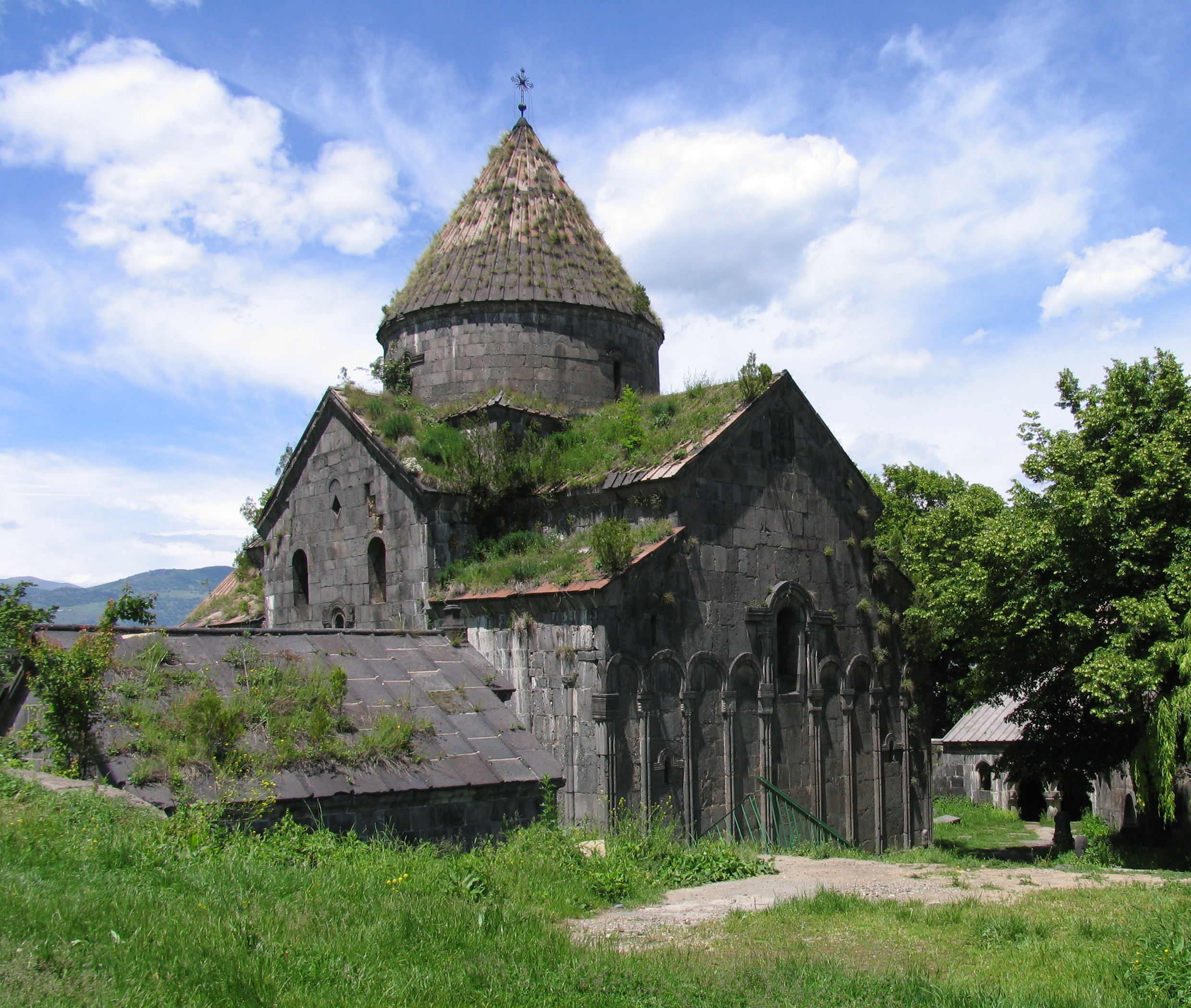 The 10th century Armenian monastery of Sanahin in Armenia.